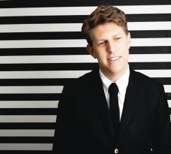 Greg Kurstin, producer, photographed in 2013.